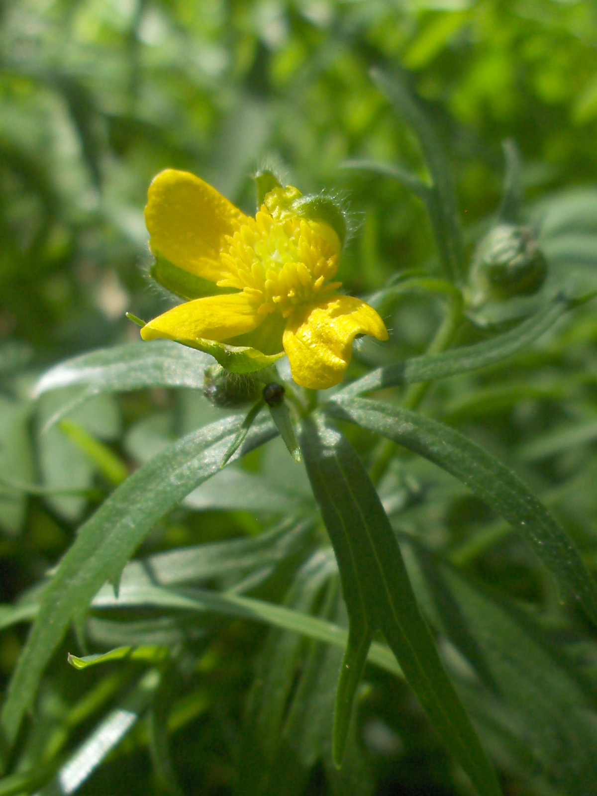 A typical flower of the apomictic buttercup Ranunculus auricomus